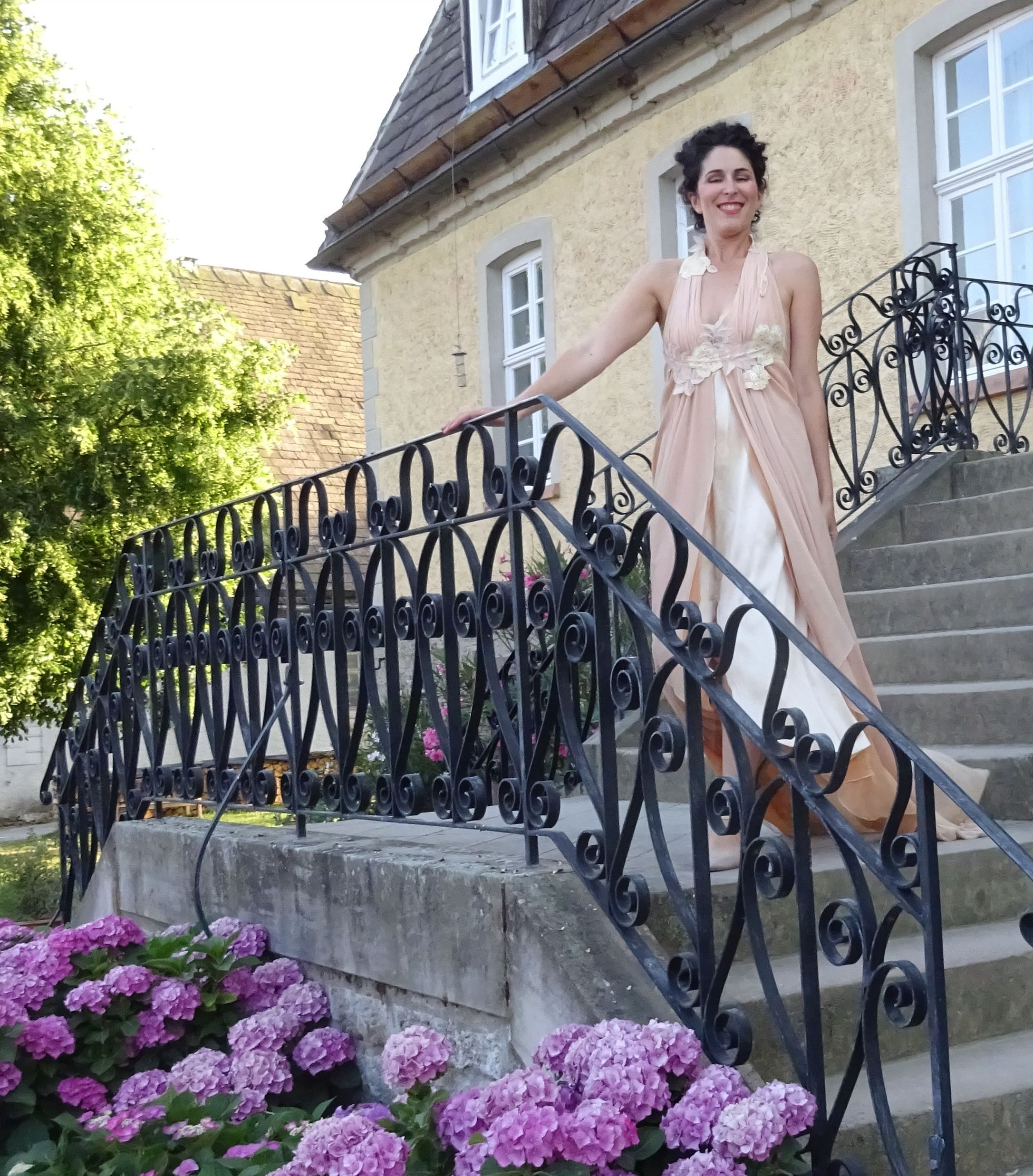 Sara Hershkowitz after performing Strauss Lieder with the Nordwestdeutsche Philharmonie at the opening concert of the festival Voices in Holzhausen, 7 July 2018